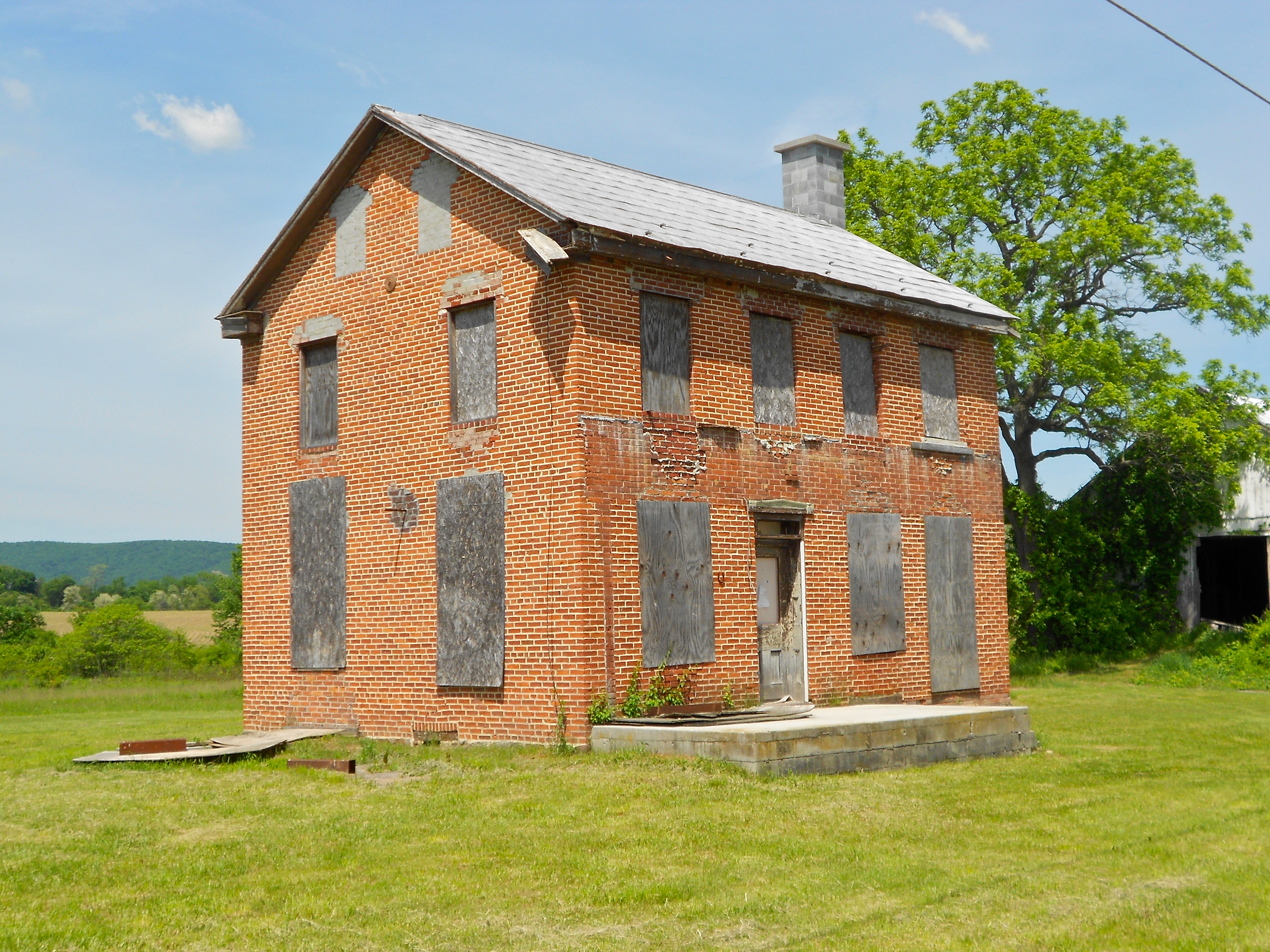 Abandoned house in Franklin Township, York County, Pennsylvania. On Bypass Road